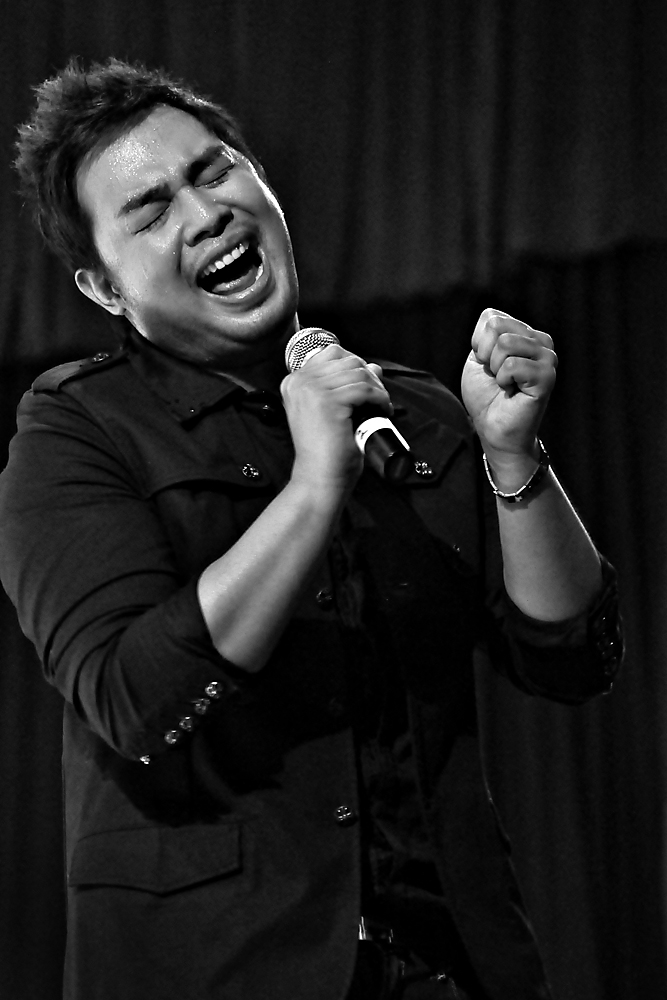 A photo of Jed Madela by Jhong Dizon, photographed in May 2010.